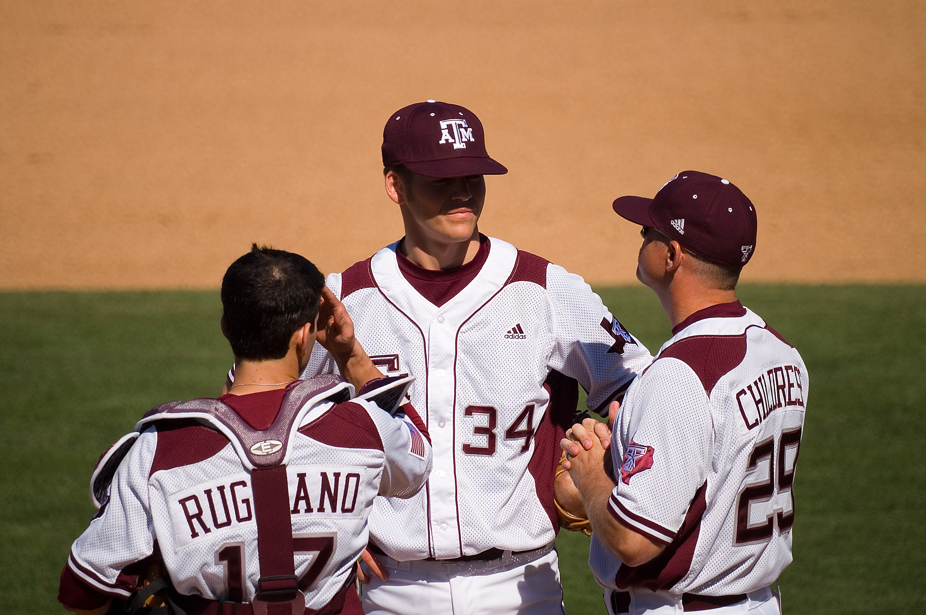 Brian Ruggiano (C) - Scott Migl (P) - Rob Childress (Head Coach) Aggie Baseball - February 24, 2008